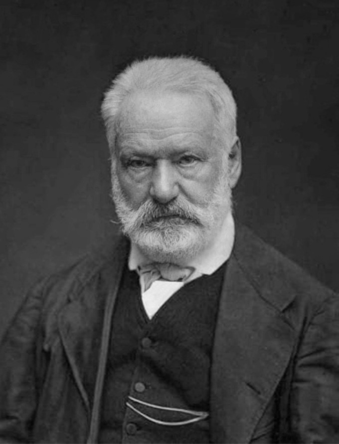 Woodburytype of Victor Hugo